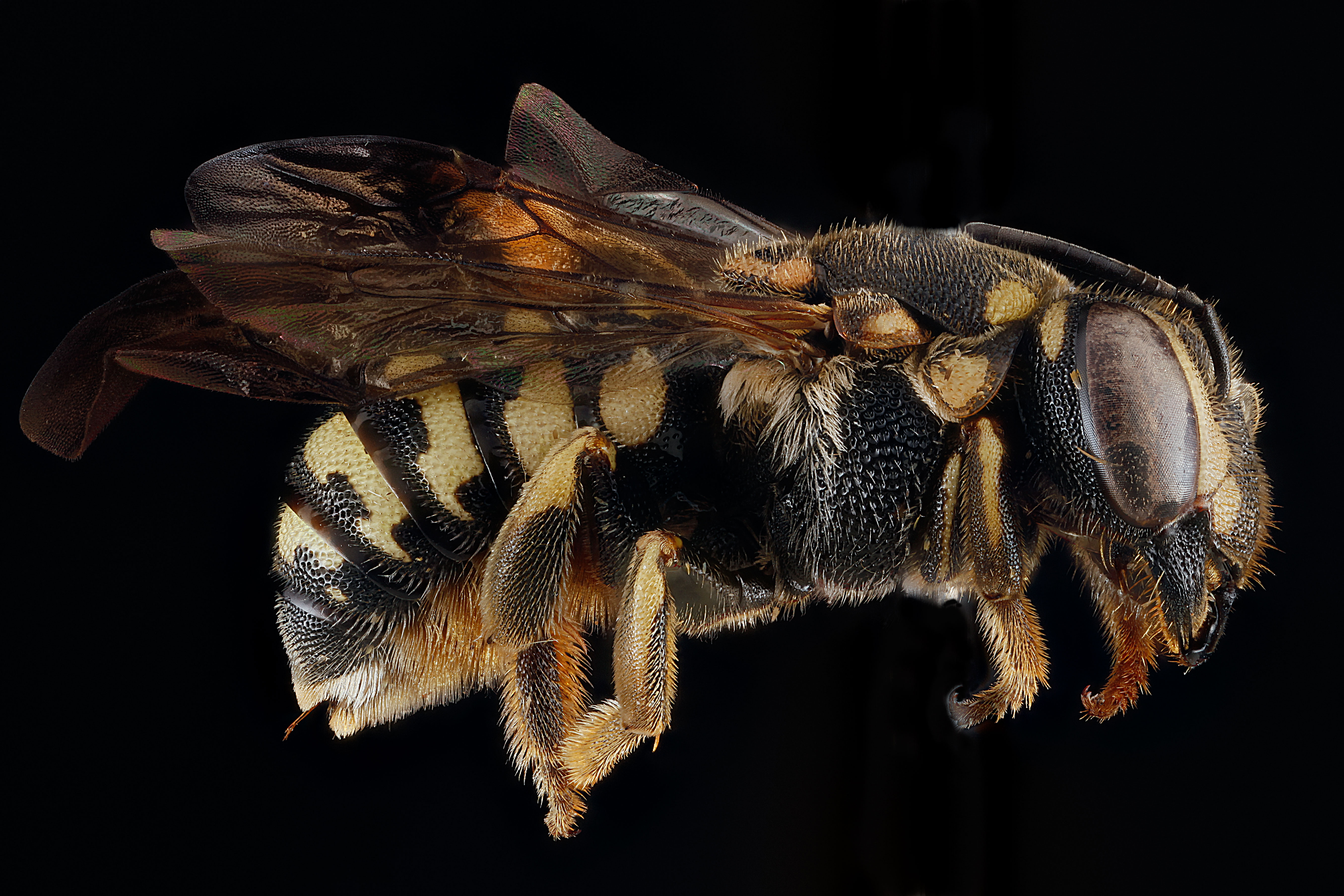 Dianthidium simile, female, Michigan, July 2011, Sleeping Bear Dunes National Lakeshore